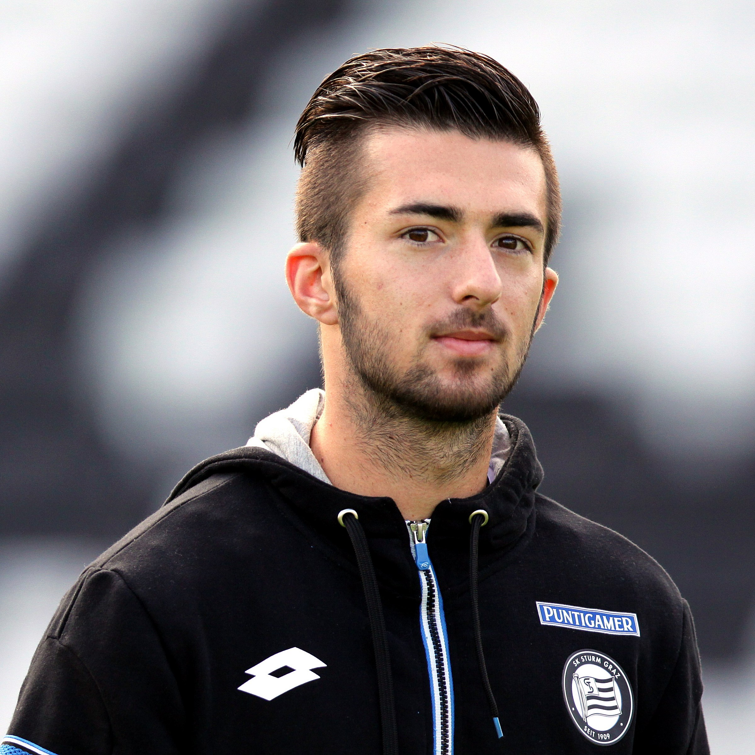 Match of the Austrian Football Bundesliga – FC Admira Wacker Mödling (red shirts) vs. SK Sturm Graz (white shirts) 0-1 (0-0) on 2015-09-27 in Bundesstadion Sudstadt – The photo shows Marvin Potzmann (SK Sturm Graz)